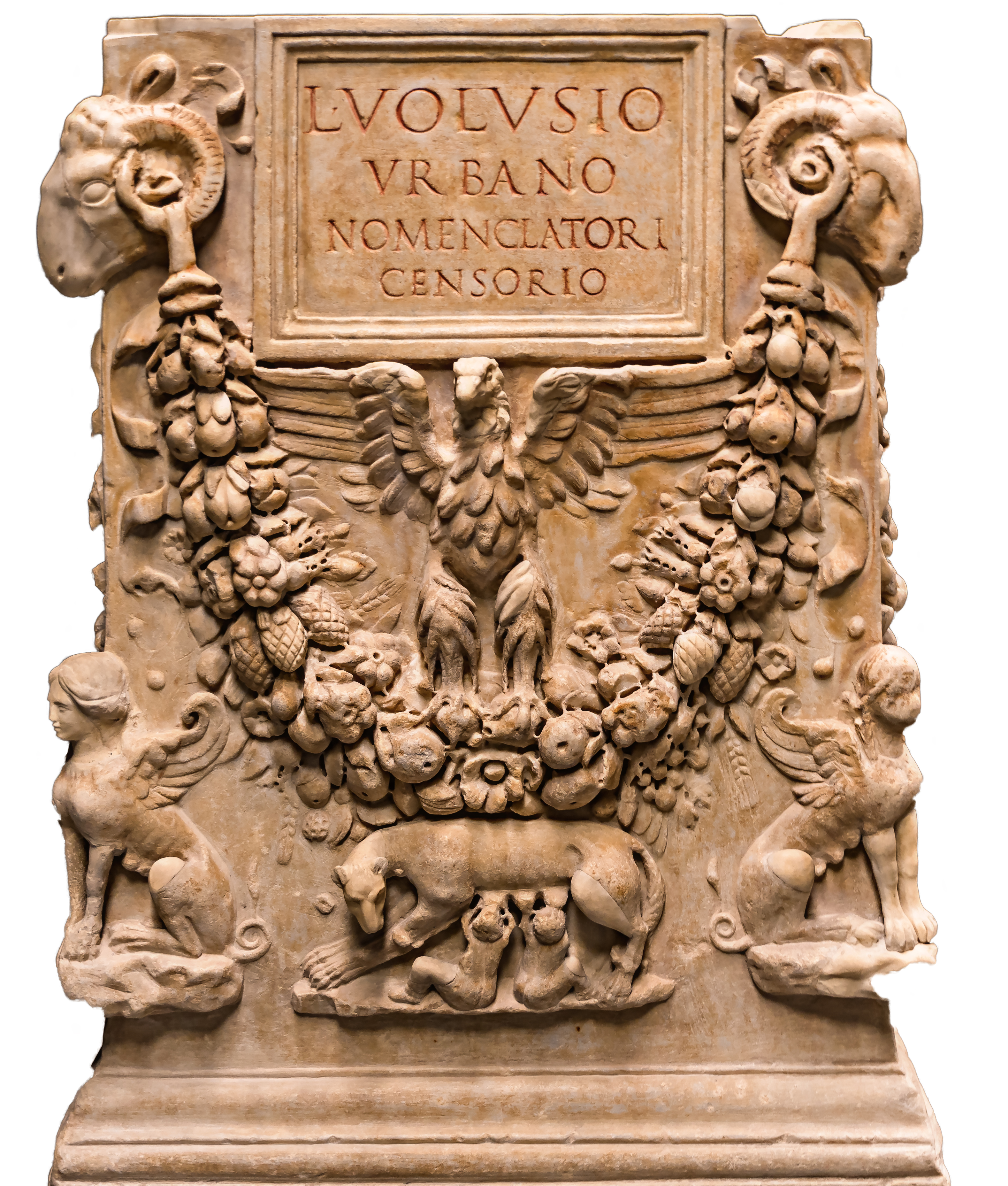 Sepulchral Inscription for Lucius Volusius (Urbanus), freedman and nomenclator